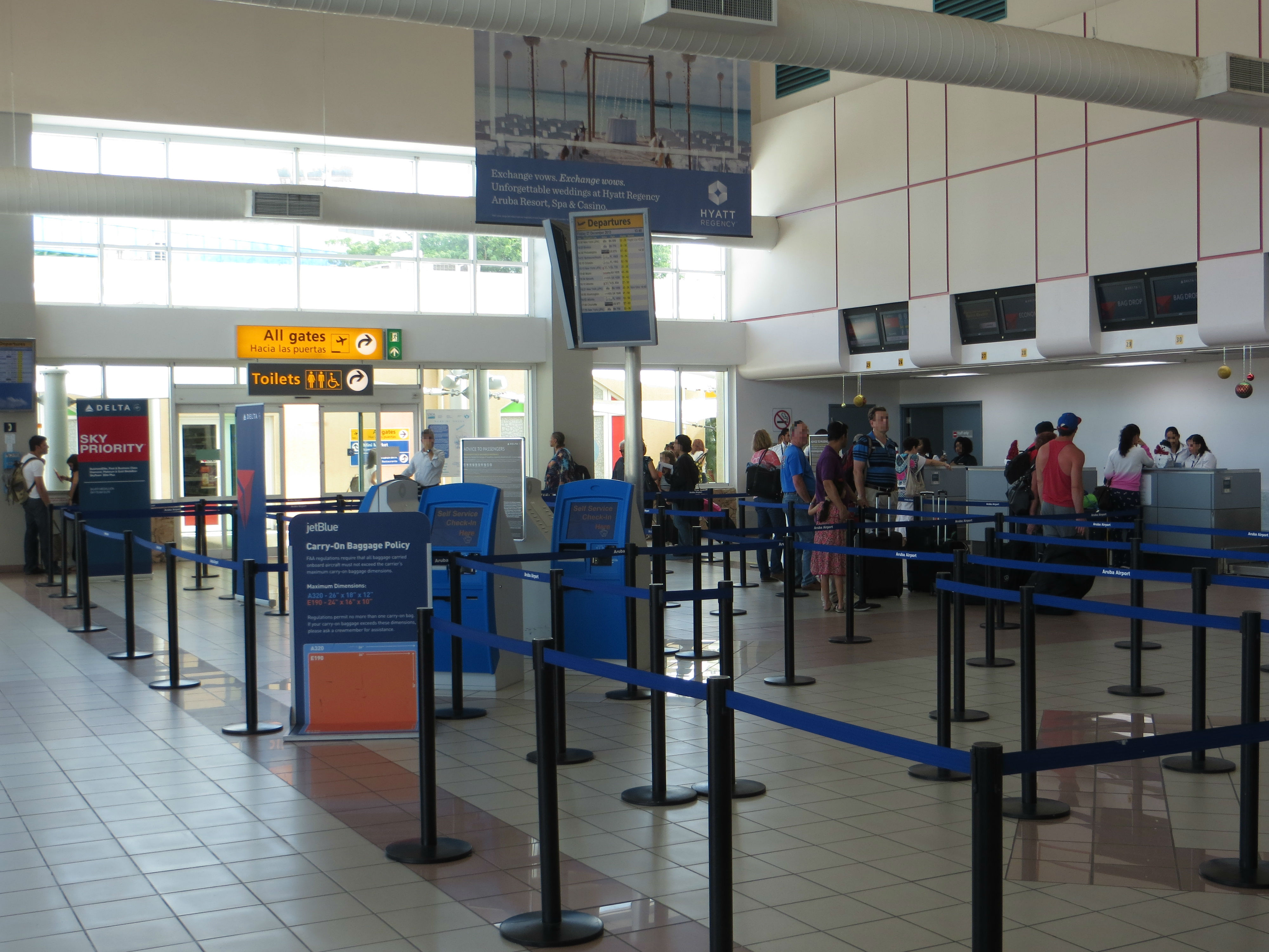 DL ticketing counters at AUA